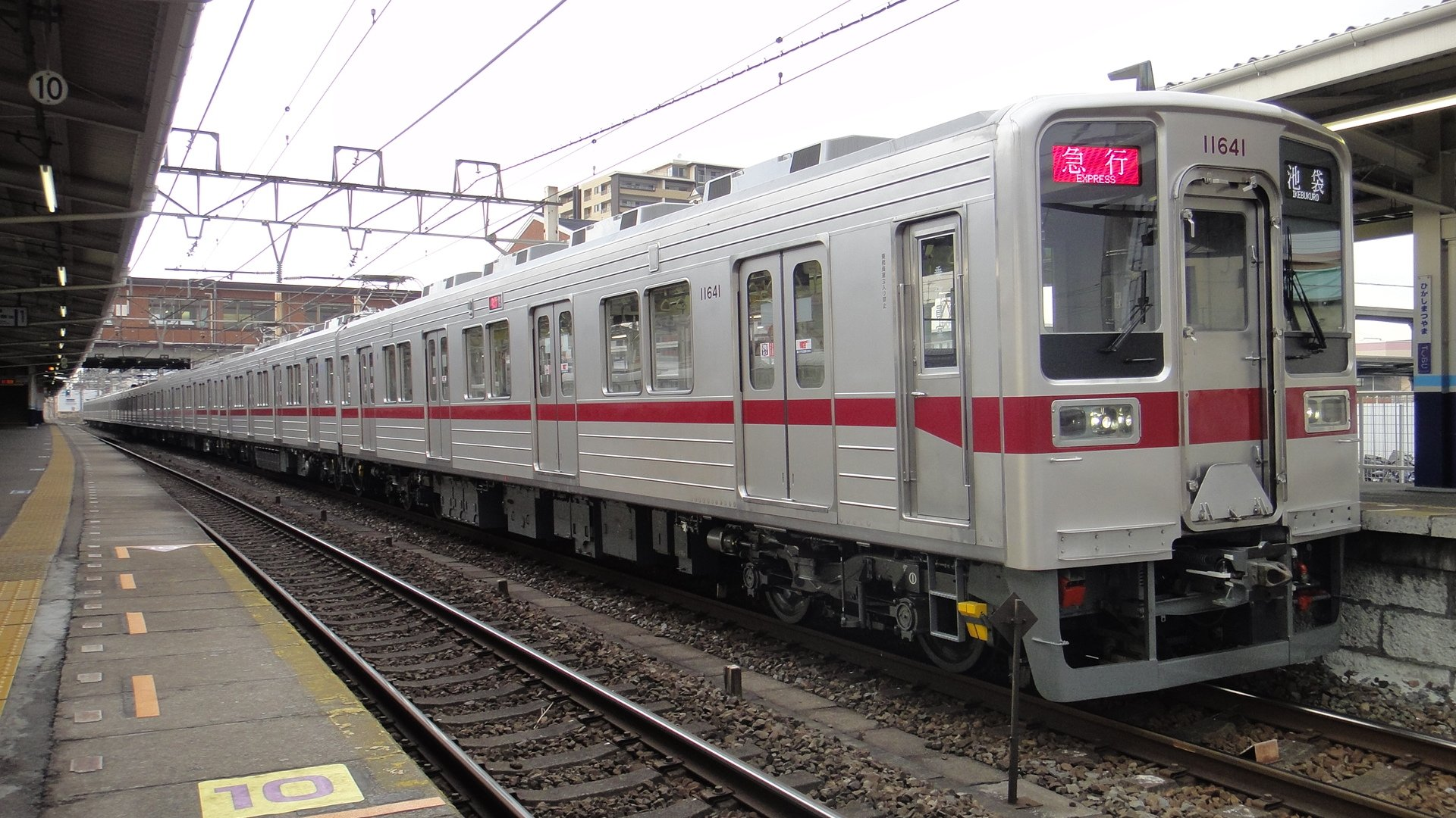 Refurbished Tobu 10030 series EMU set 11641 at Higashi-Matsuyama Station on the Tobu Tojo Line on an Ikebukuro-bound express service